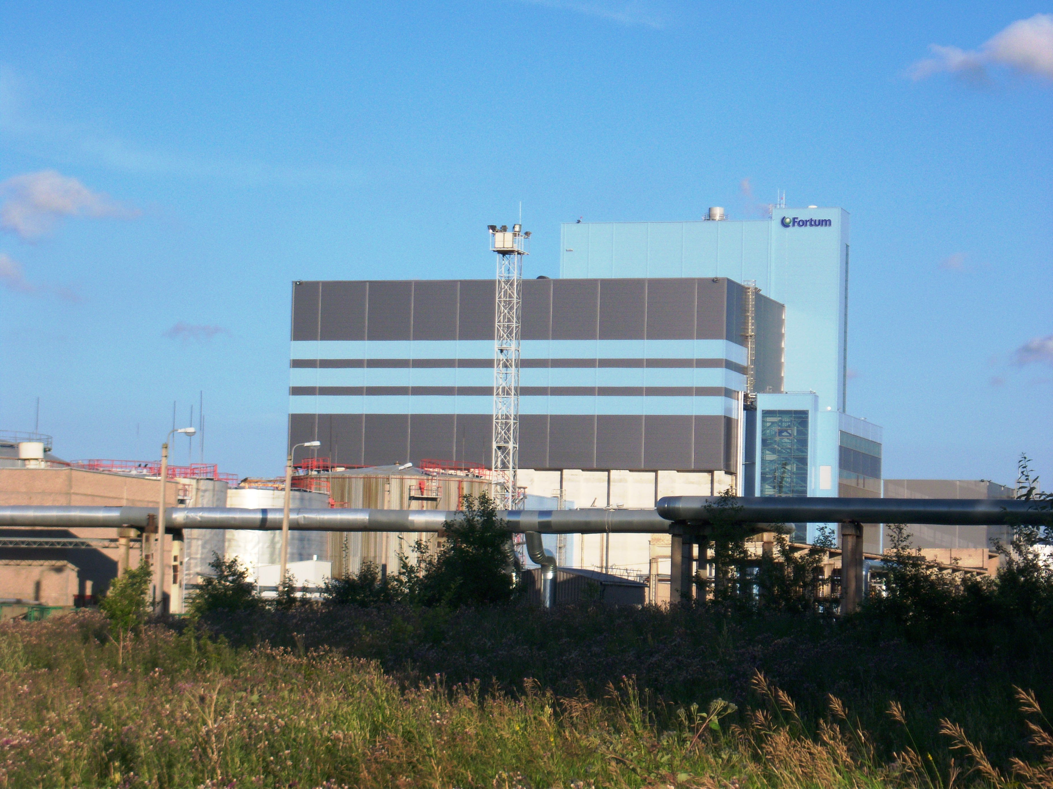 Combined heat and power plant of Fortum Corporation, Klaipėda, Lithuania